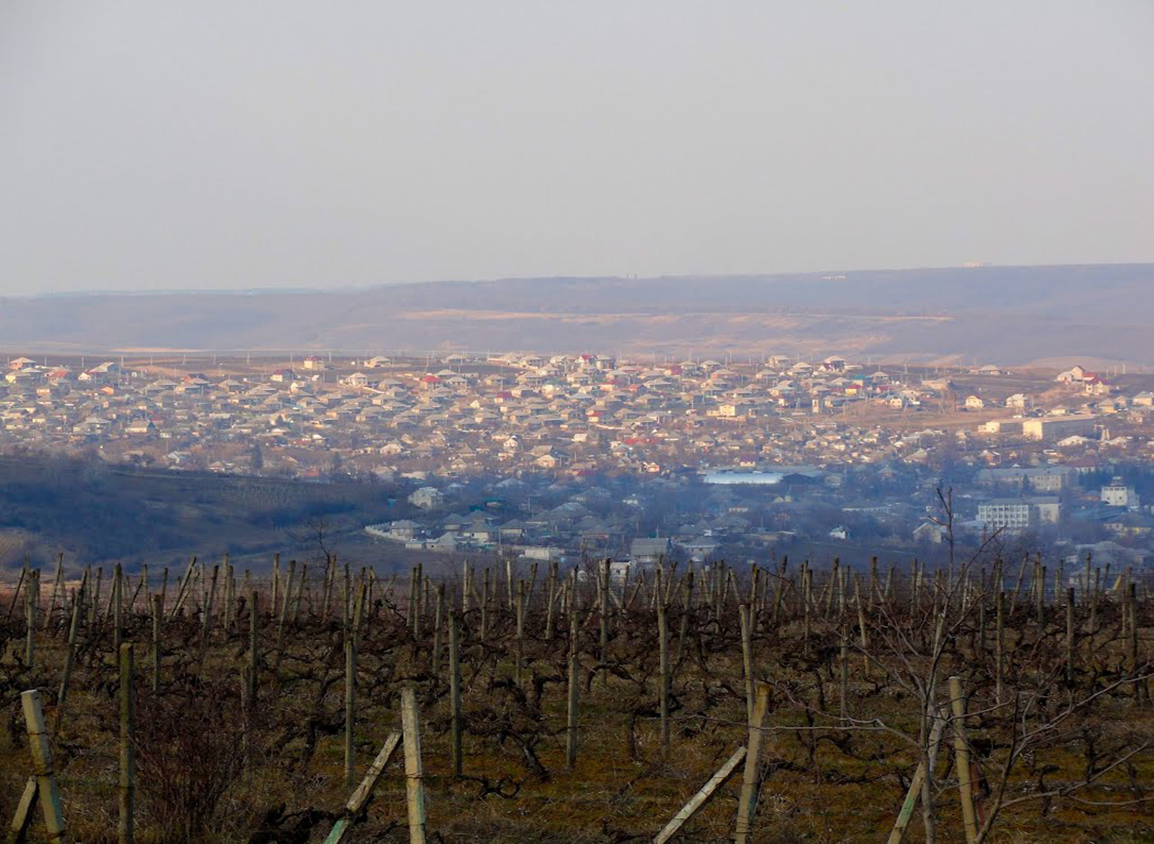 Vedere de la sud de Bardar, de pe dealul chirieci.